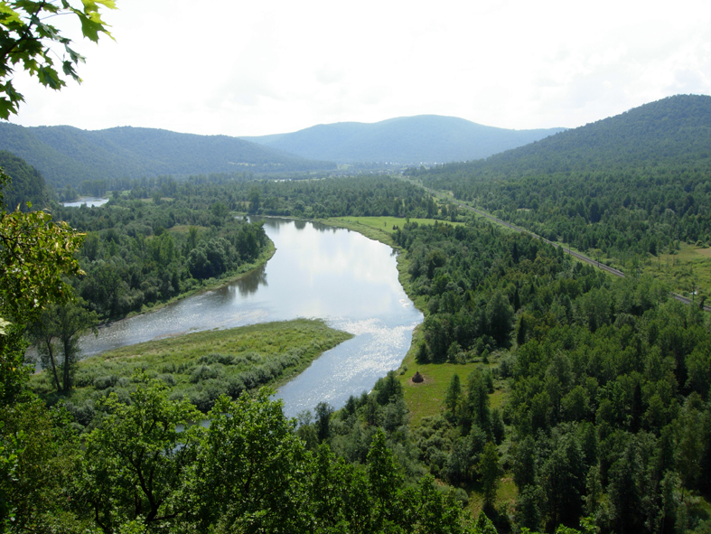 Inzer, river in Bashkortostan, Russian Federation